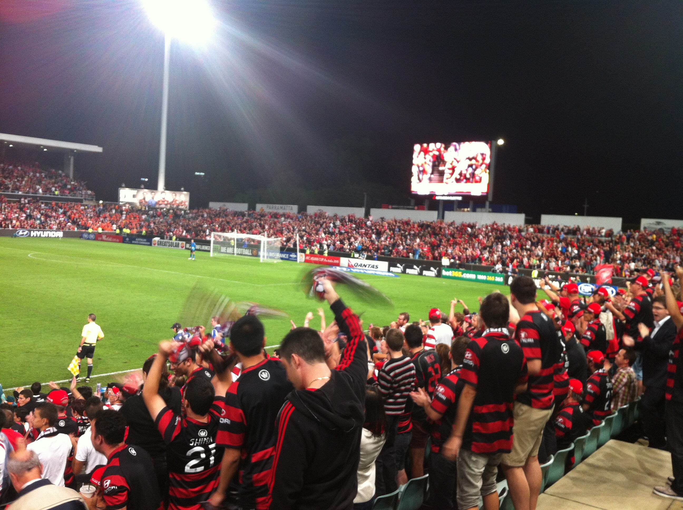 WSW fans during a match at Parramatta Stadium